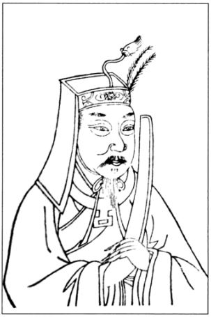 Reproduction of a contemporary image of the Chen Te Hsui (Zhen Dexui).